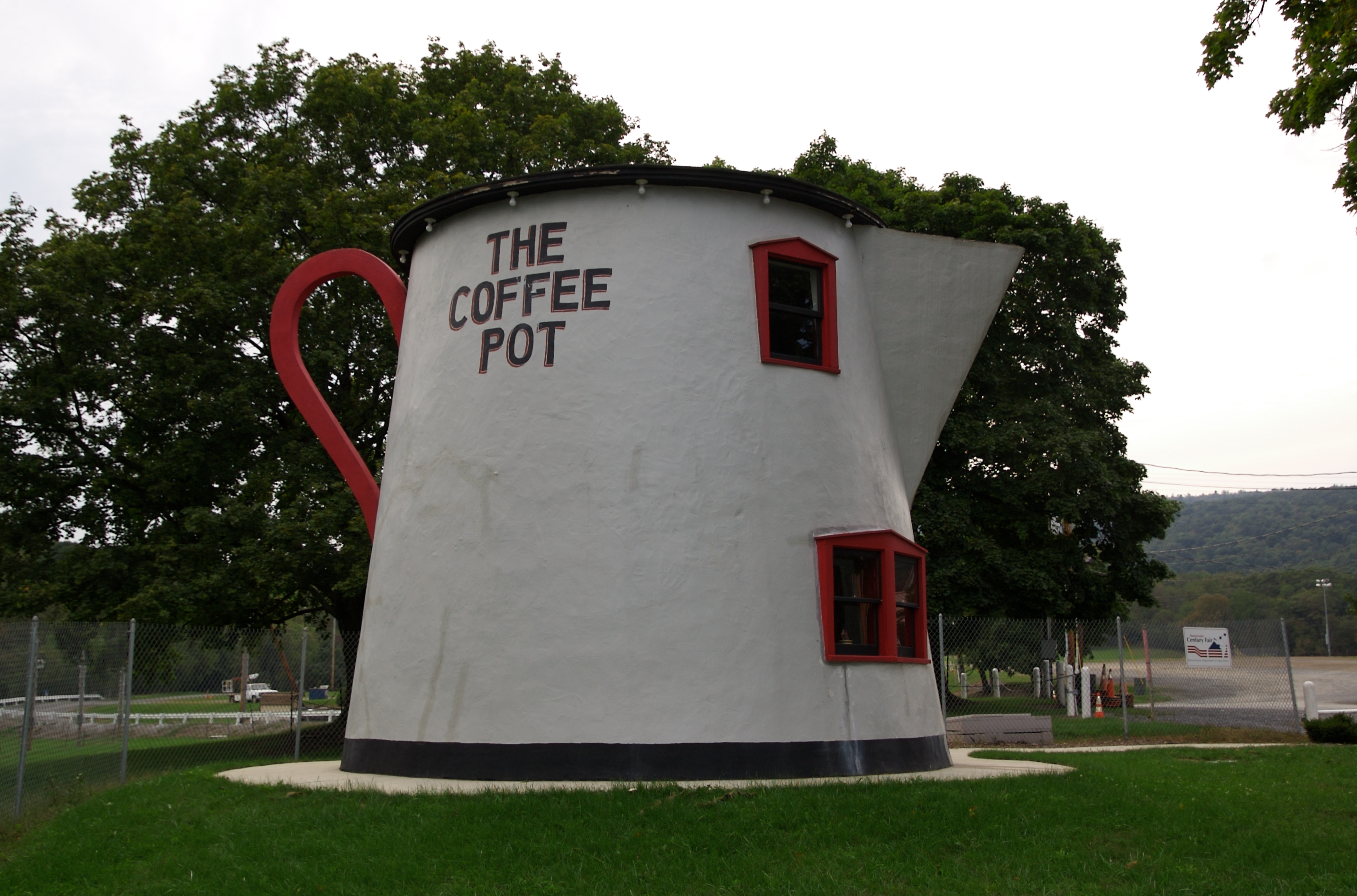 From the exhibit sign: The increased number of automobiles during the Lincoln Highway era (1912-1940) led to the development of programmatic architecture. Proprietors took daring approaches to appeal to the new motoring public. All across the country, over-sized buildings were being created in the likeness of objects. Some of the more famous were constructed in Pennsylvania along the Lincoln Highway route -- the Coffee Pot, the Ship Hotel, the Shoe House, etc. Many have fallen into disrepair. In 1927, Bert Koontz designed and quickly erected the Coffee Pot on the wend end of Bedford. His intention was to attract visitors to his adjacent gas station. The early restaurant served ice cream, hamburgers and Coca=Cola. In 1937 it was converted to a bar and a hotel was built in the rear. The Coffee Pot became a regular stop for Greyhound bus passengers since the bus depot was next door. In an effort to save the Coffee Pot, the Lincoln Highway Heritage Corridor moved it to this location and restored it in 2004.